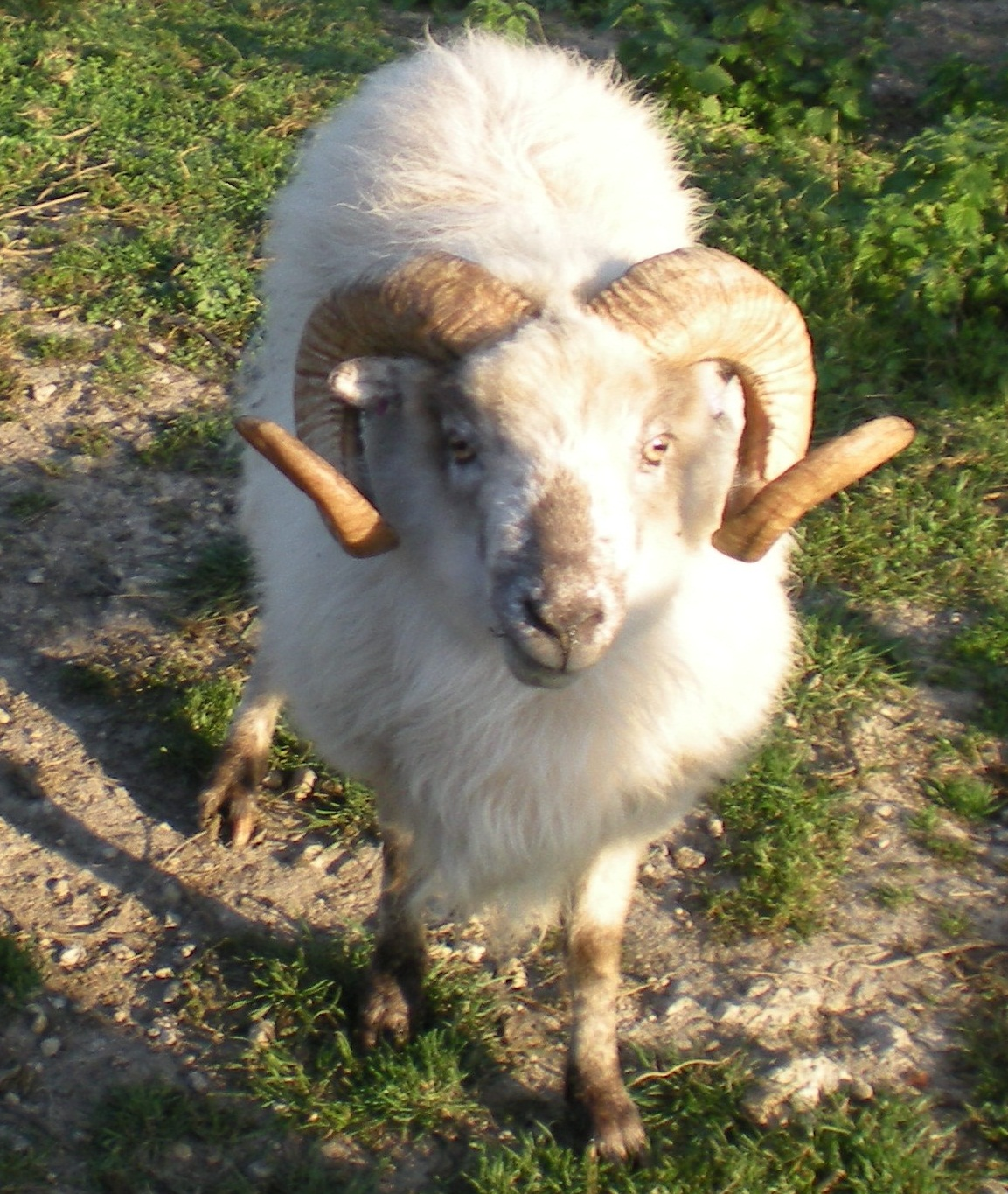 This is a picture of our Boreray Ram, who we have called Haan, in October of this year.